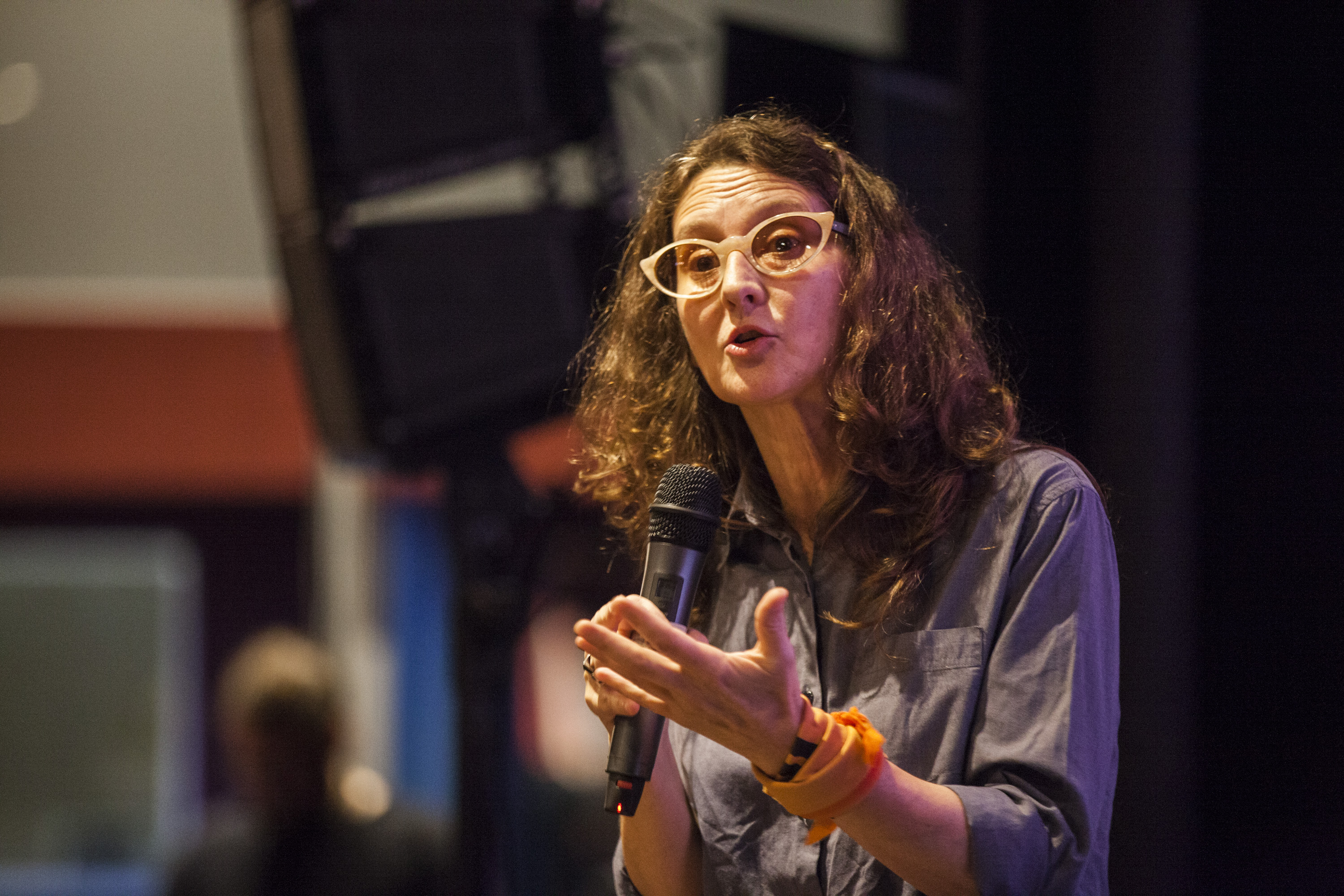 Mar del Plata, 12 de noviembre de 2018 - Se realizó la inauguración del 33 Festival Internacional de cine de Mar del Plata. Fotos: Mauro Rico / Secretaría de Cultura de la Nación.